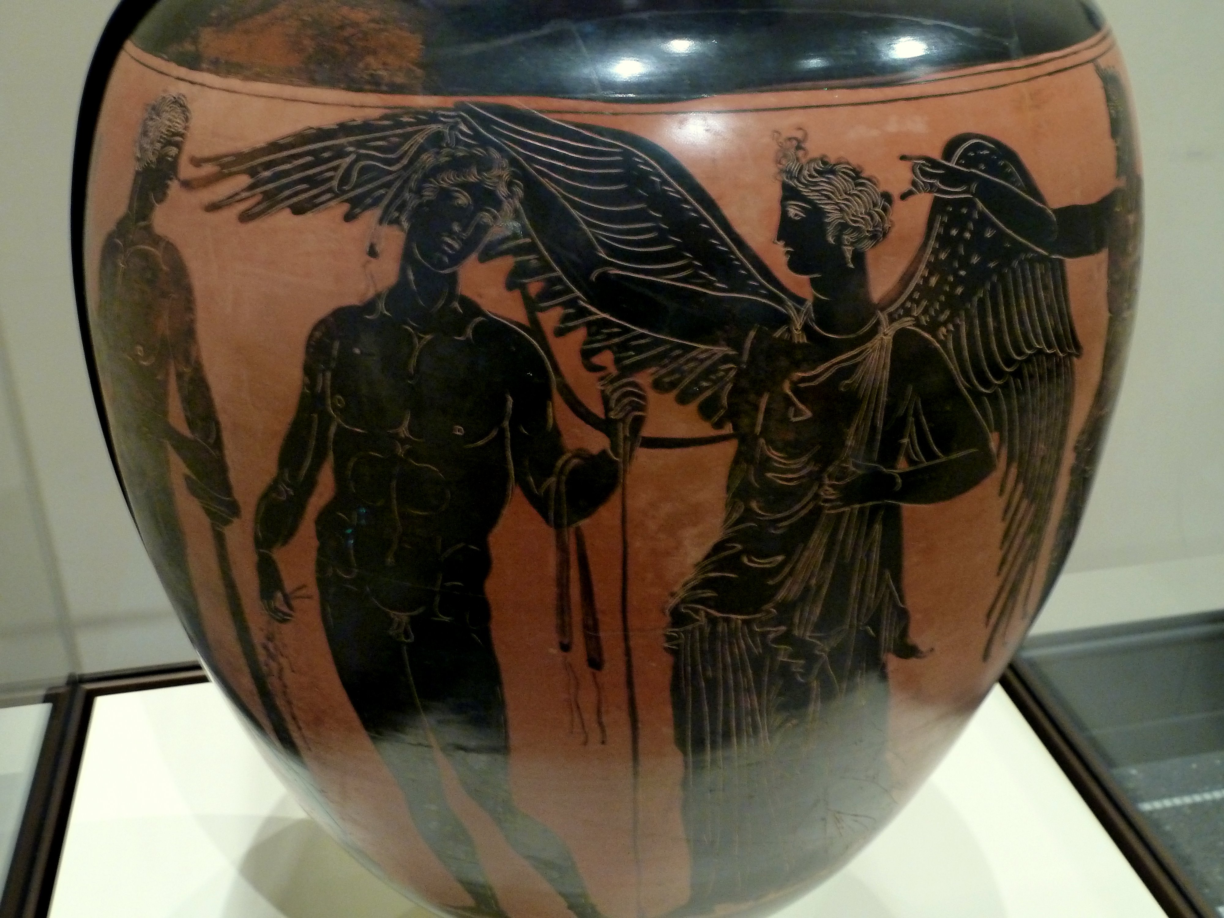 Prize Vessel from the Panathenaic Athenian Games (Greek, Athens, 363-362 BC) - Athlete wreathed by Nike (vanquished foe to the left, judge to the right.)